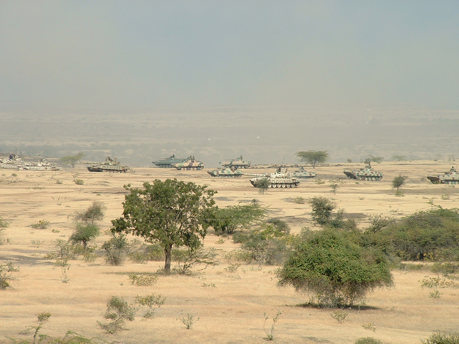 Indian Army Armoured Corps during a training exercise Combat Team composed of T72M MBTs, T90S MBTs (possibly) and BMP2 IFVs forming up for a training assault on an enemy held position